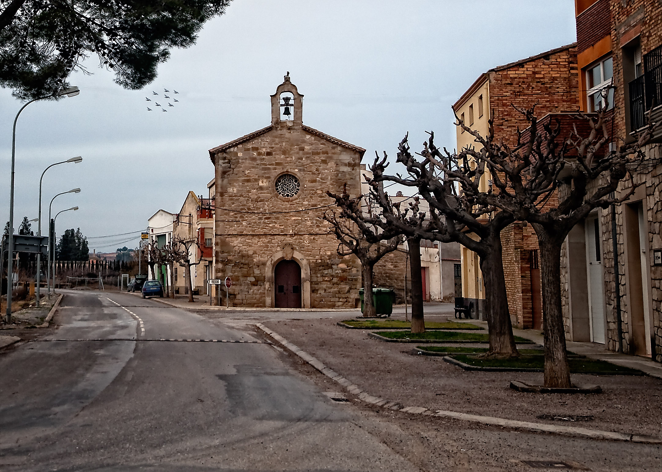 Sant Sebastia church of Castellserà (Catalonia, Spain)